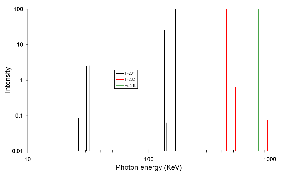 I drew it.